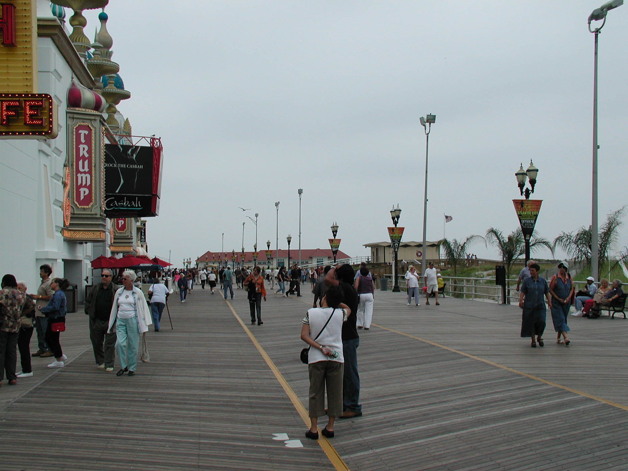 Picture of the Atlantic City Boardwalk Taken by Raul654 on August 24, 2004. Released under the GFDL